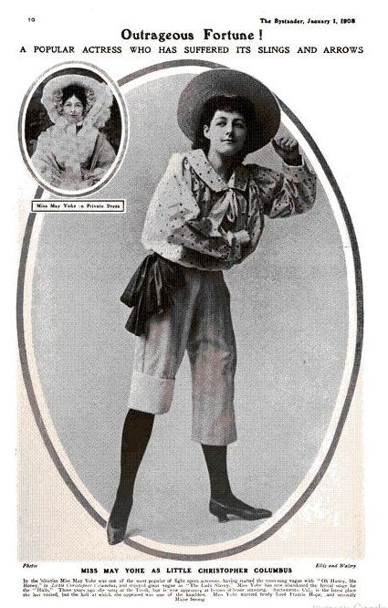 As Little Christopher Colombus ca. 1894